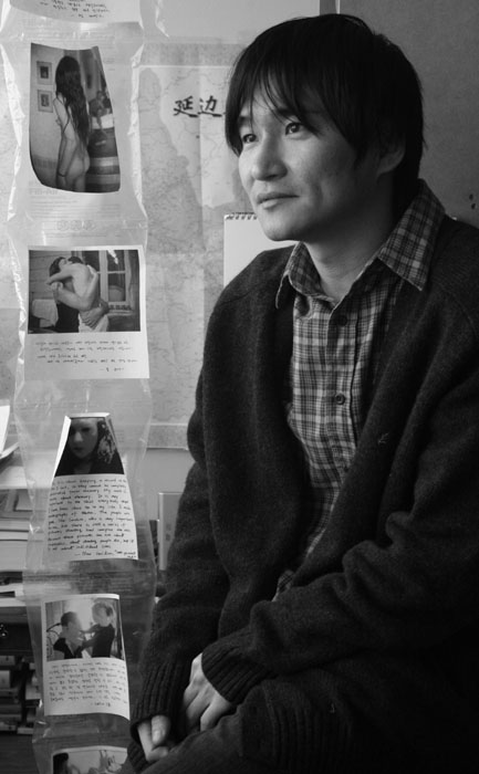 Kim Yeon-su